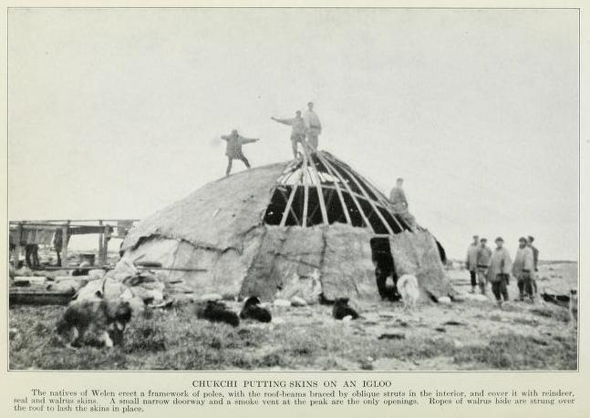 Chukcho natives of Uelen, Chukotka, Russia putting she walrus-hide outer skin on a Yaranga, 1913. Uelen in on the northern side or the neck of Cape Dezhnev.